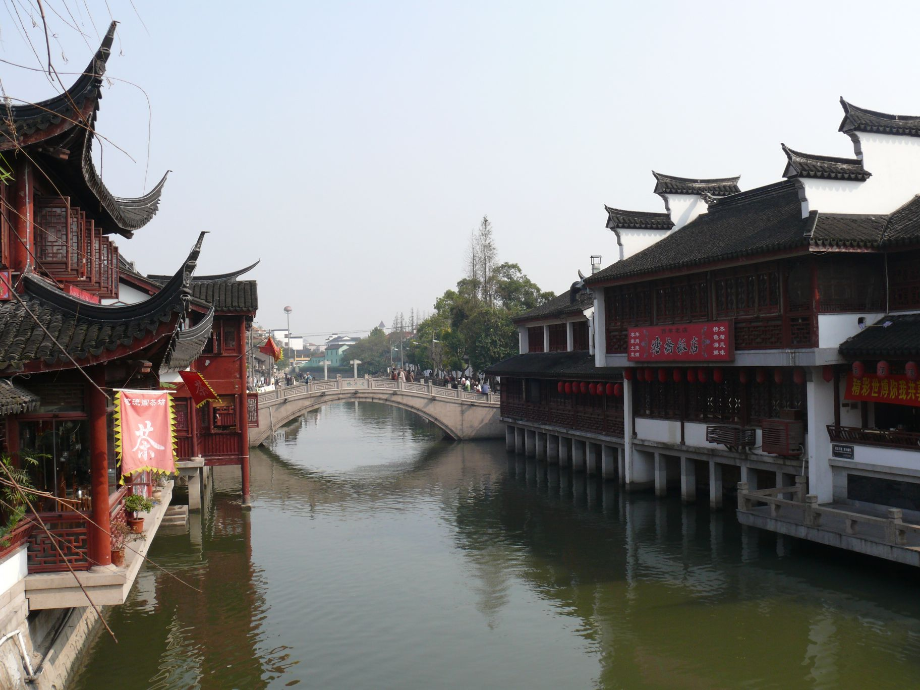 Qibao old town (Shanghai, China)